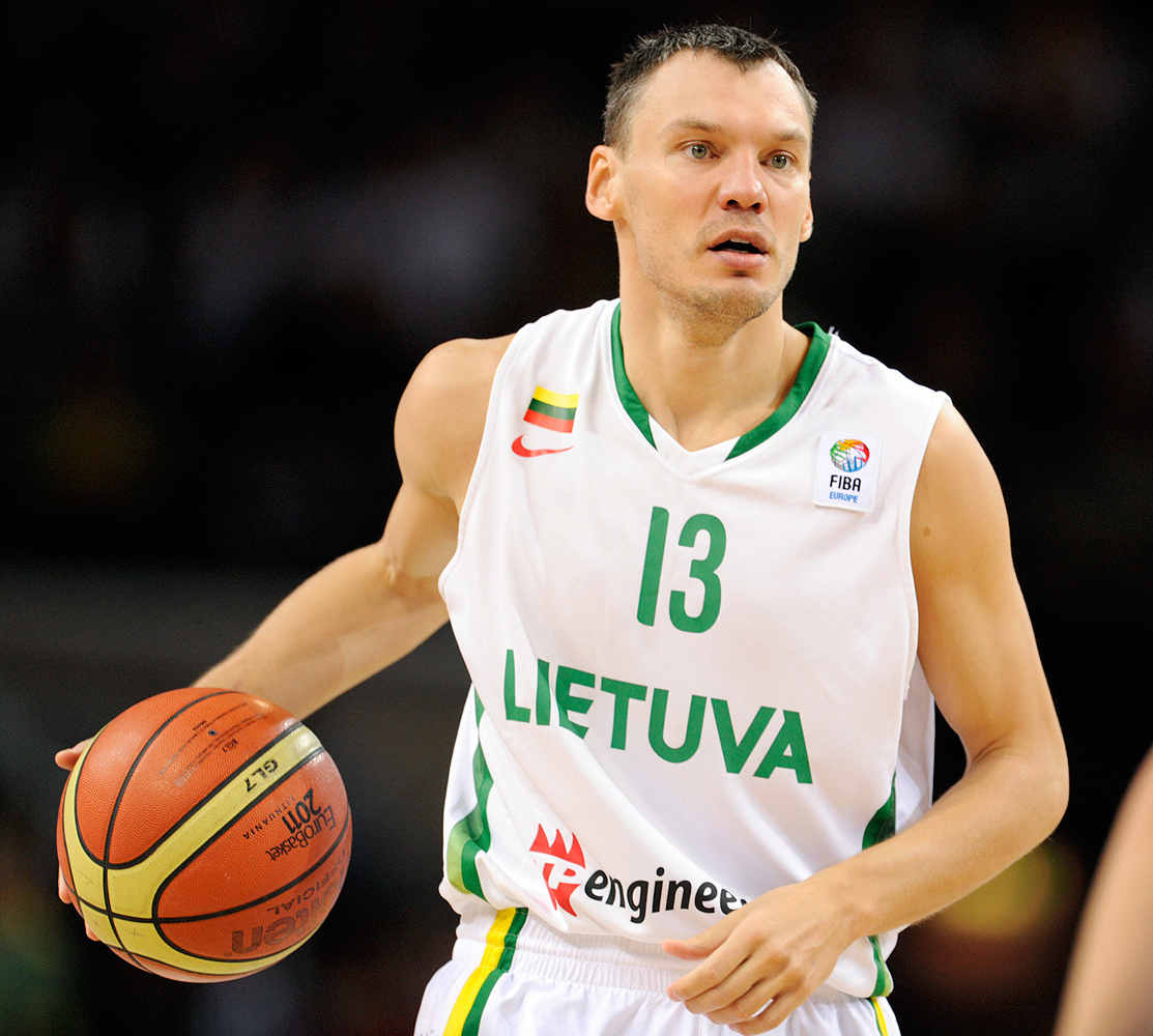 Point guard of Lithuania national basketball team Šarūnas Jasikevičius during EuroBasket 2011 match between Lithuania and Greece (Zalgiris arena, Kaunas)